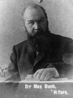 Photograph of the Finnish physician and ethnologist Dr. Maximilian Theodor (Max) Buch (1850–1920).